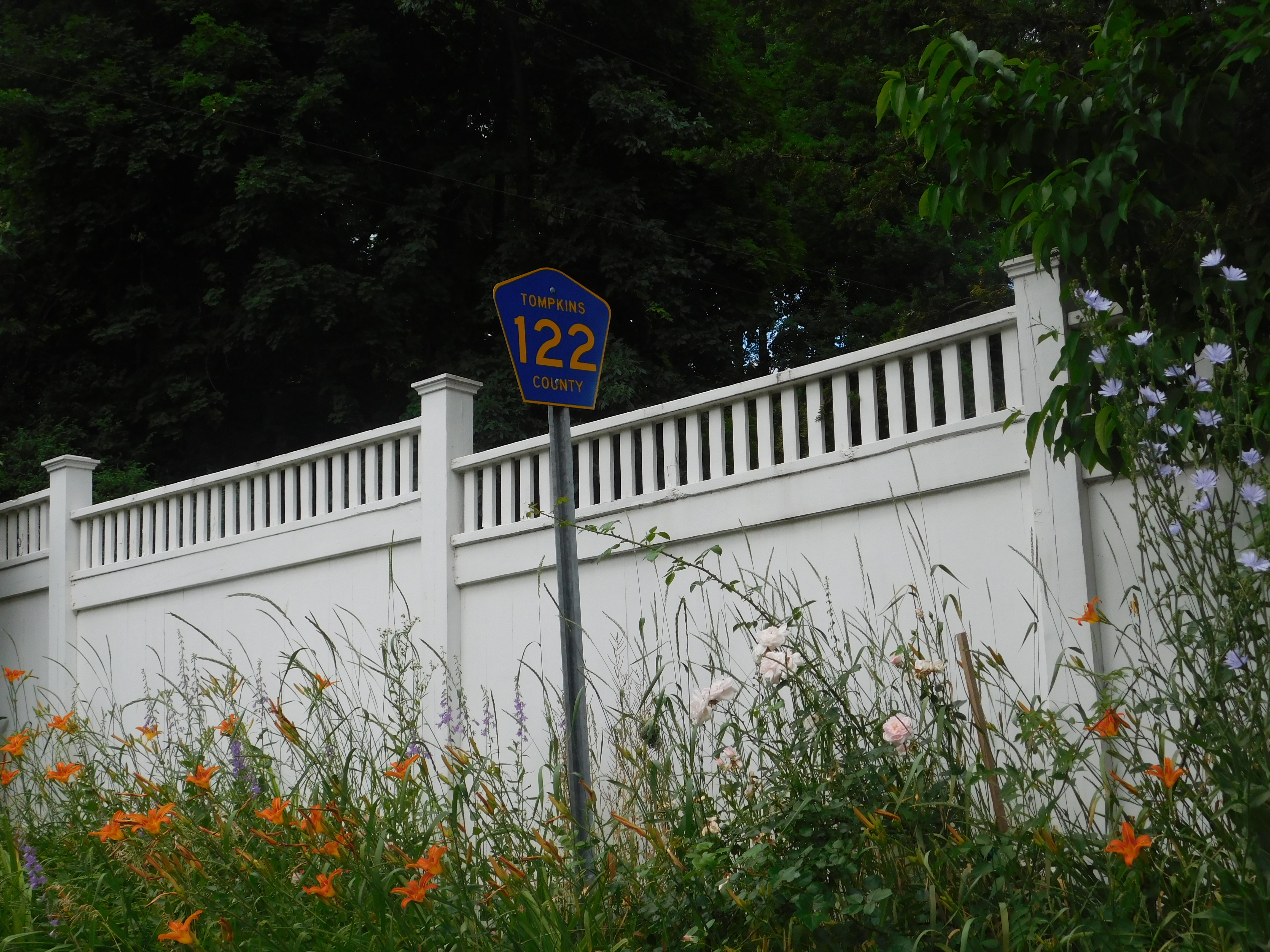 County Route 122 shield in Tompkins County, New York.